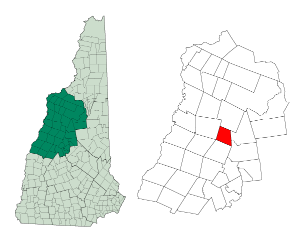 Map of a municipality in Belknap County, New Hampshire